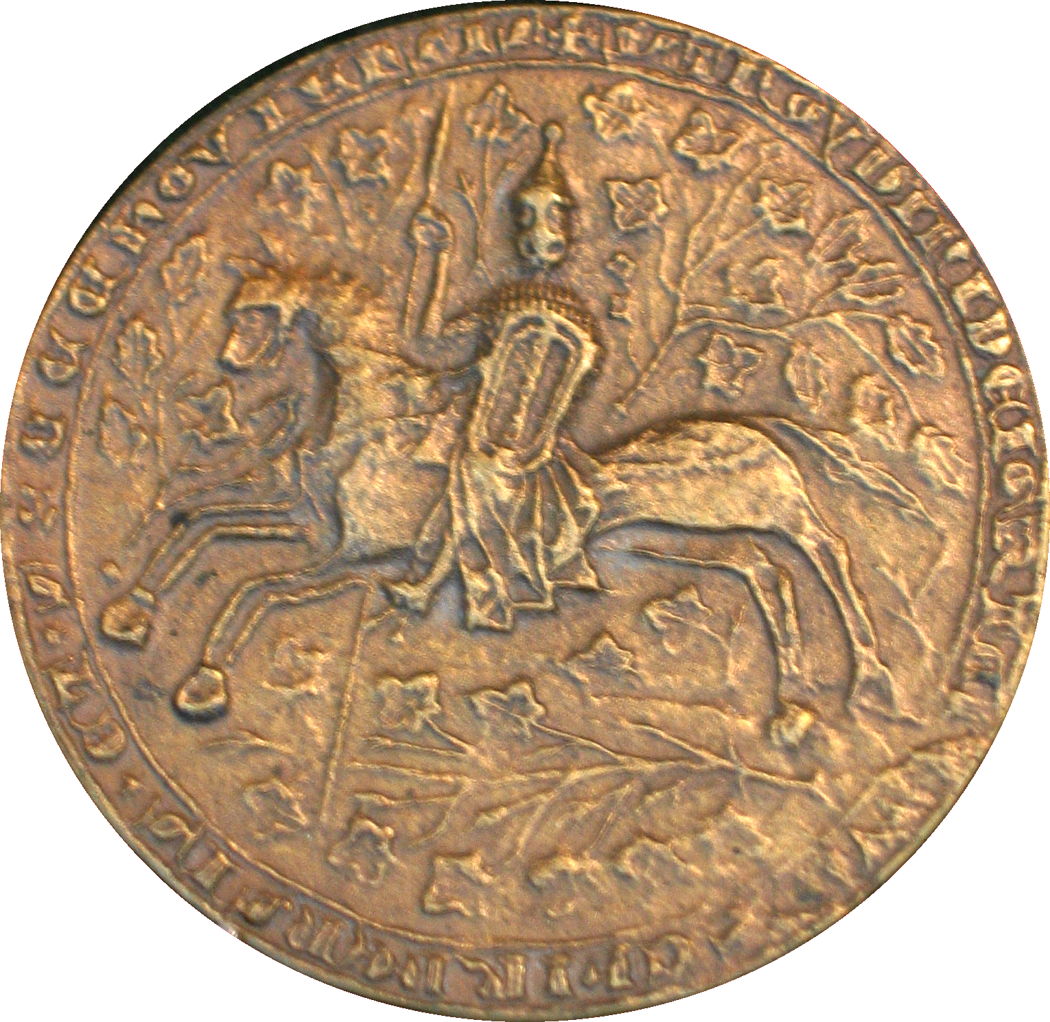 "One seal of Duke Trojden I, dating from 1341, featured a mounted warrior wearing a tall conical helmet and a lamellar cuirass of seemingly entirely Eastern or Asiatic style. He is armed with a spear, and carries a similarly distinctive so-called 'small Lithuanian pavise'" David Nicolle, Witold Sarnecki, Medieval Polish Armies 966–1500 (2012), p. 34.